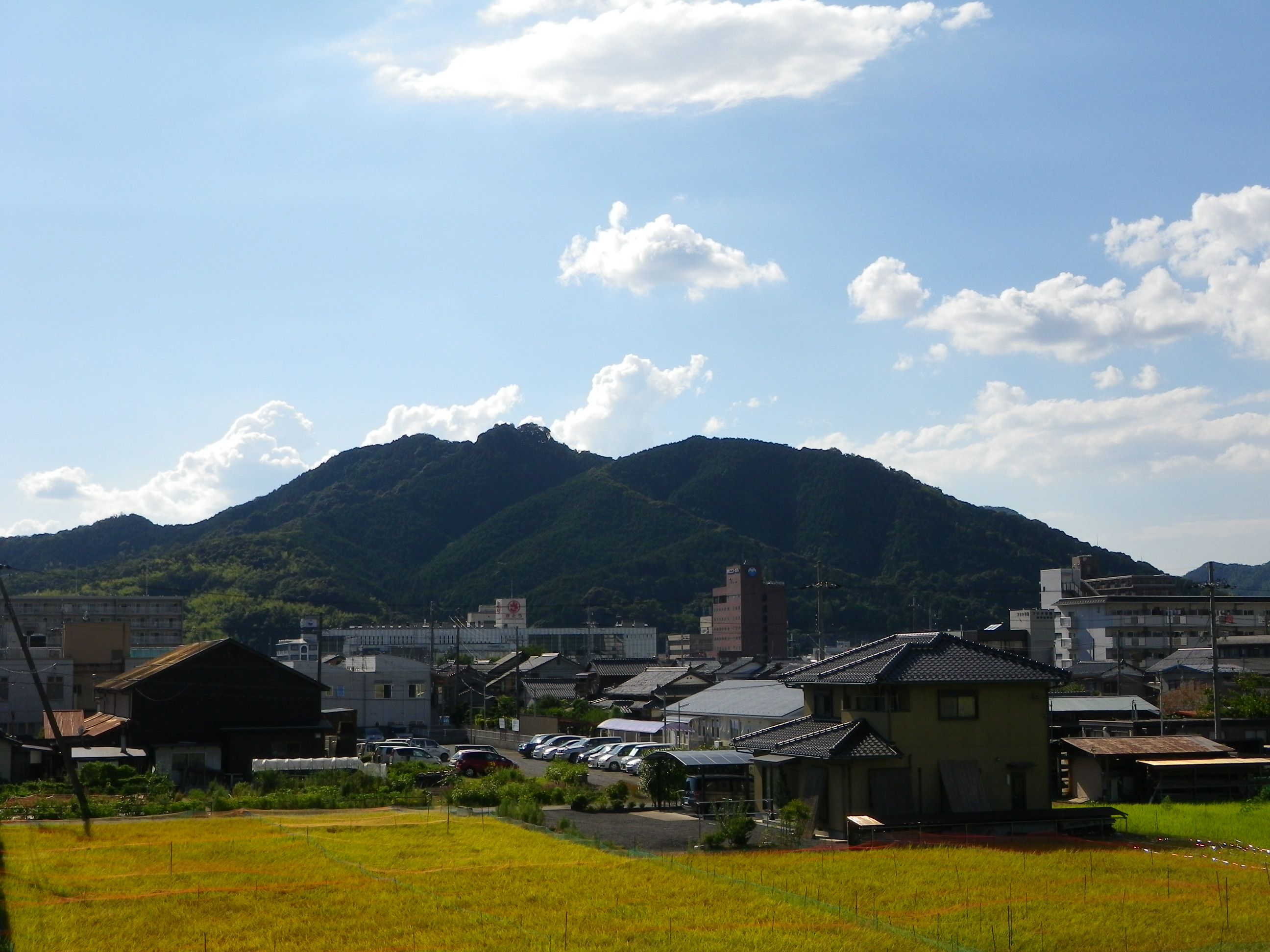 Mount Atago (Atago-san) as seen from the east in Maizuru, Kyoto, Japan.